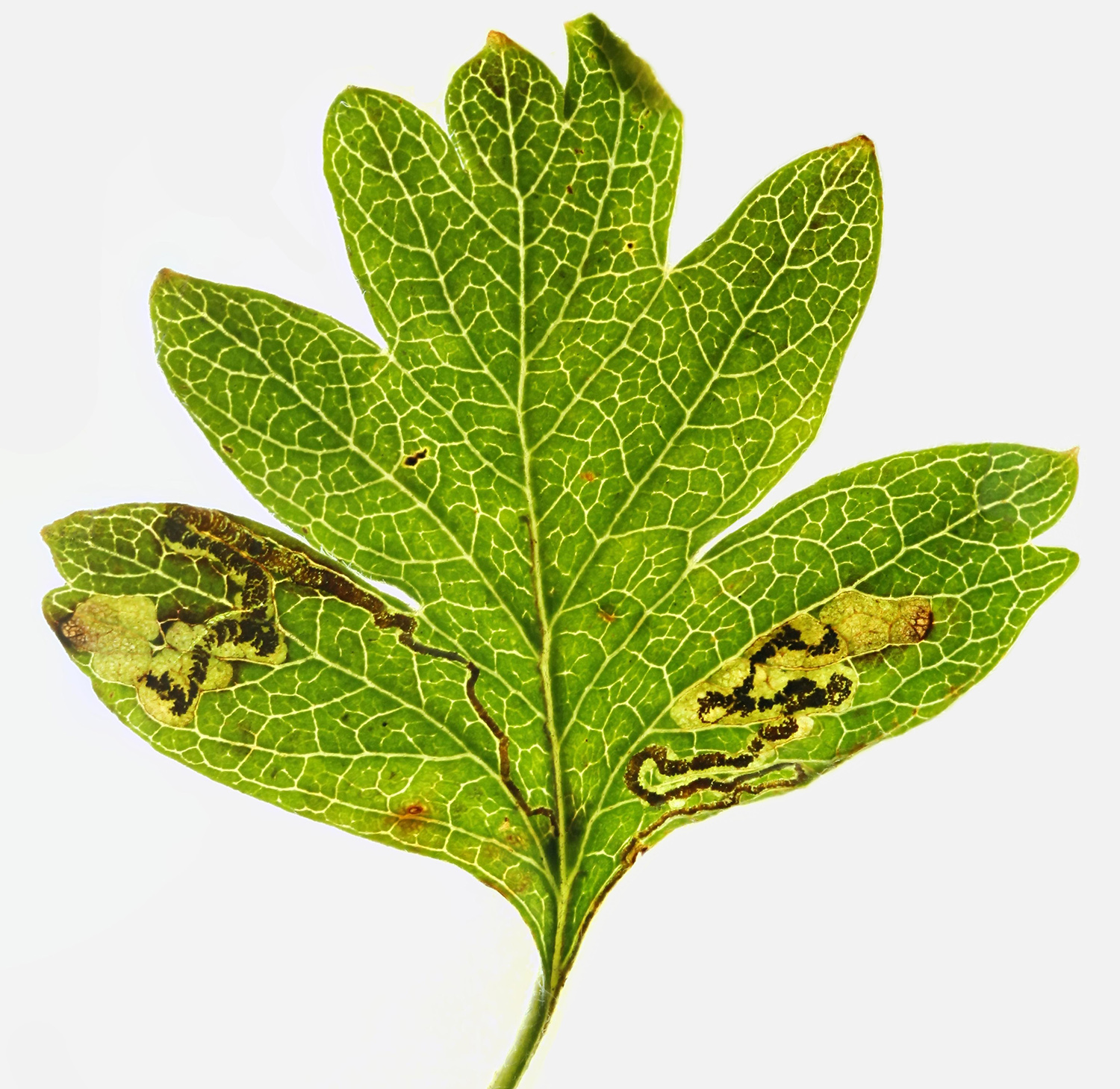 Stigmella crataegella in Crataegus, Whitethorn, Craig Tremeirchion, North Wales, Sept 2015